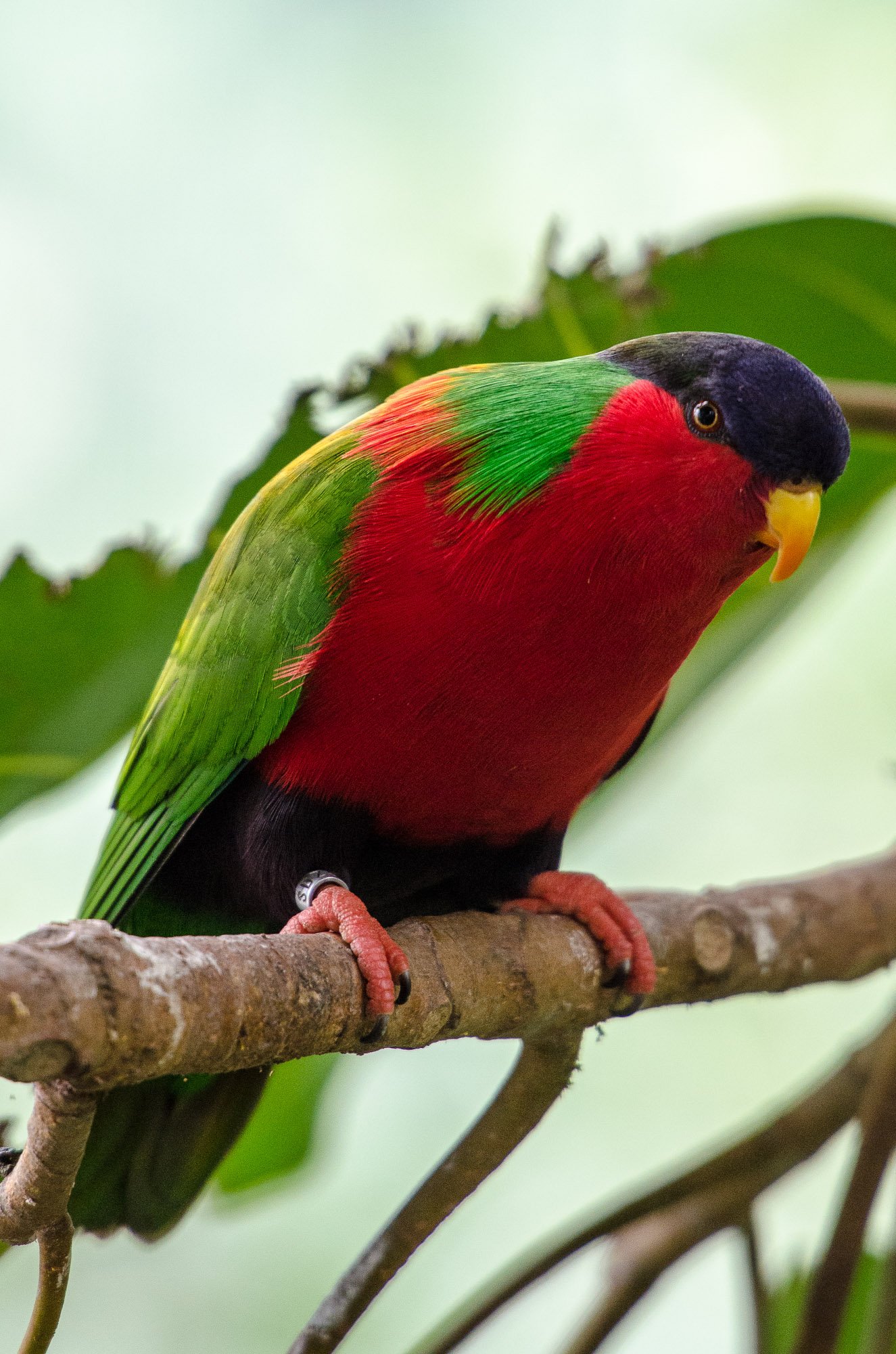 A Collared Lory at San Diego Zoo, California, USA.